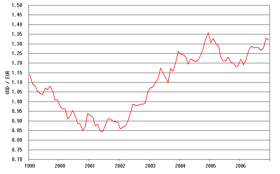 Graph showing U.S. dollar and Euro exchange rate from January, 1999 to December, 2006.